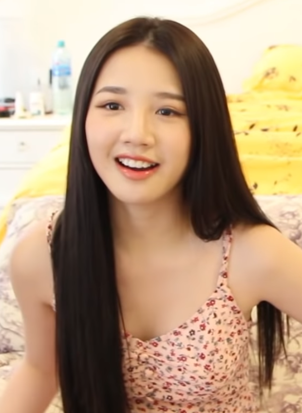 A screenshot of Amee on a mukbang video with Tien Le.